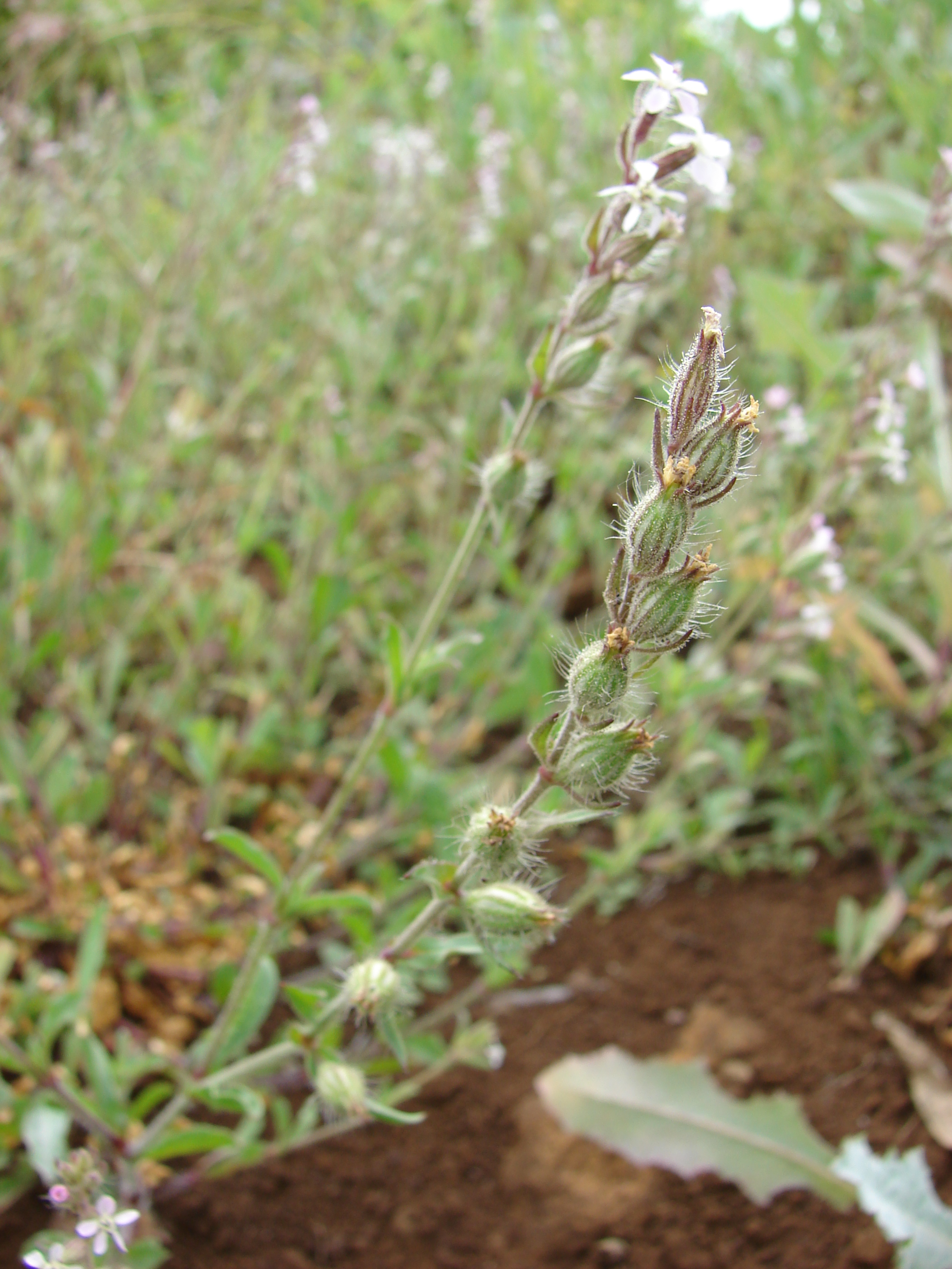 Silene gallica (flowers and fruit). Location: Maui, Kula